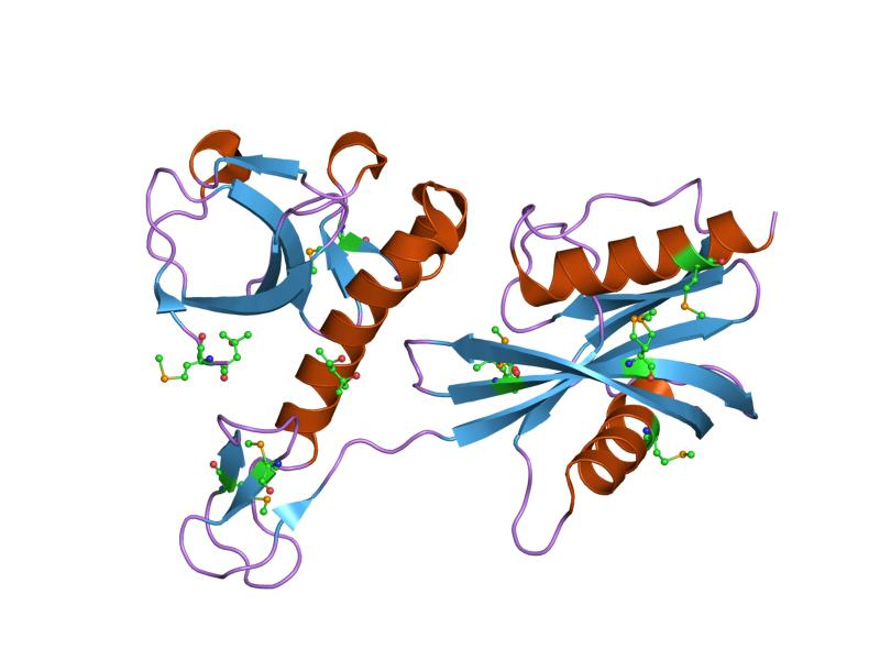 Cartoon representation of the molecular structure of protein registered with 1vk6 code.